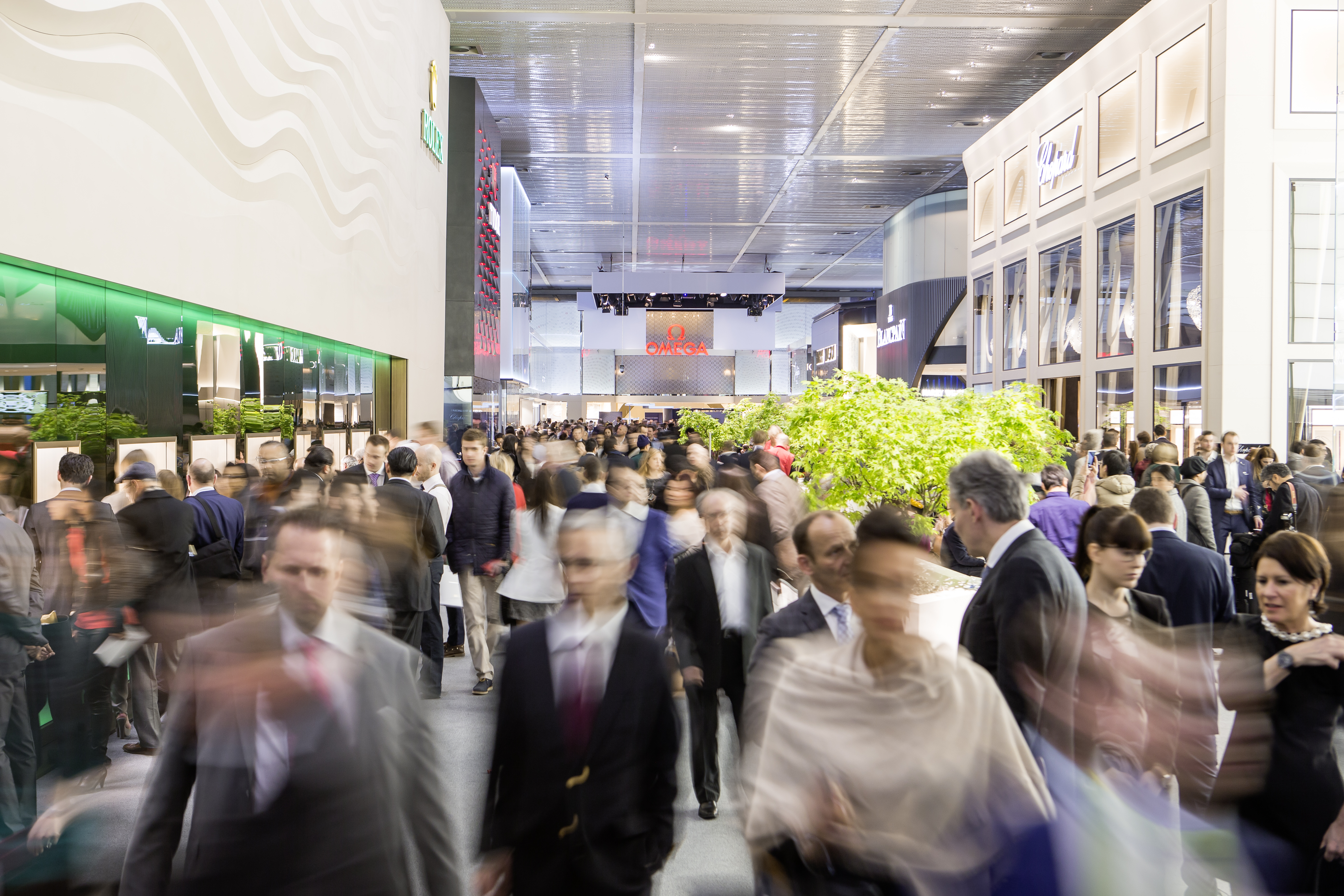 Corridor Baselworld 2015